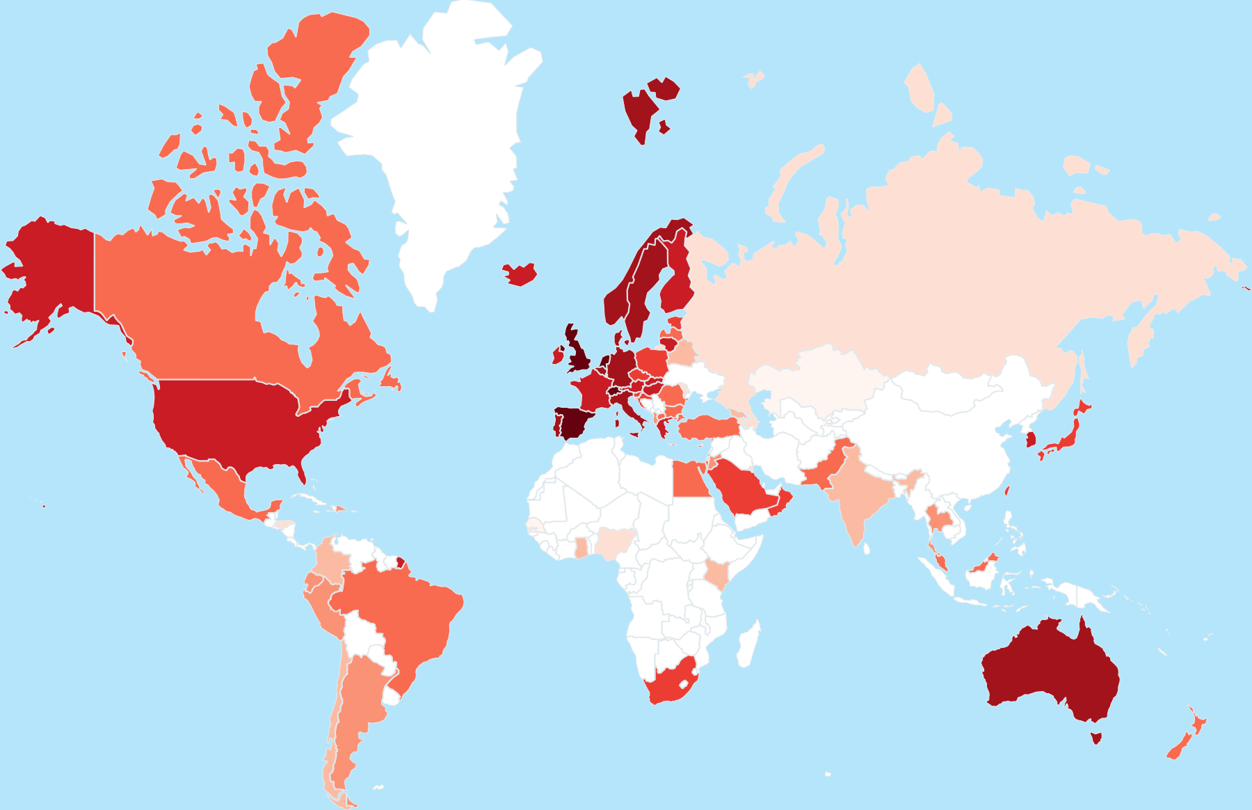 Screenshot from interactive MNP map which highlights the countries by the time of implementation